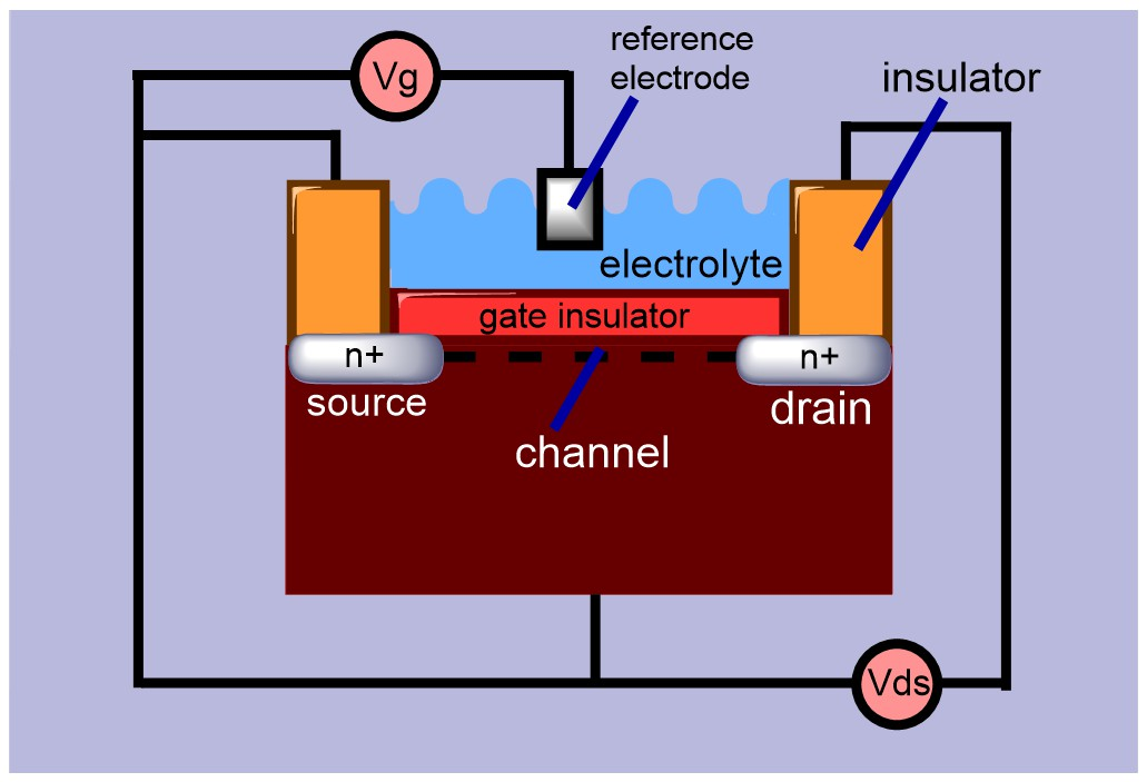 ISFET